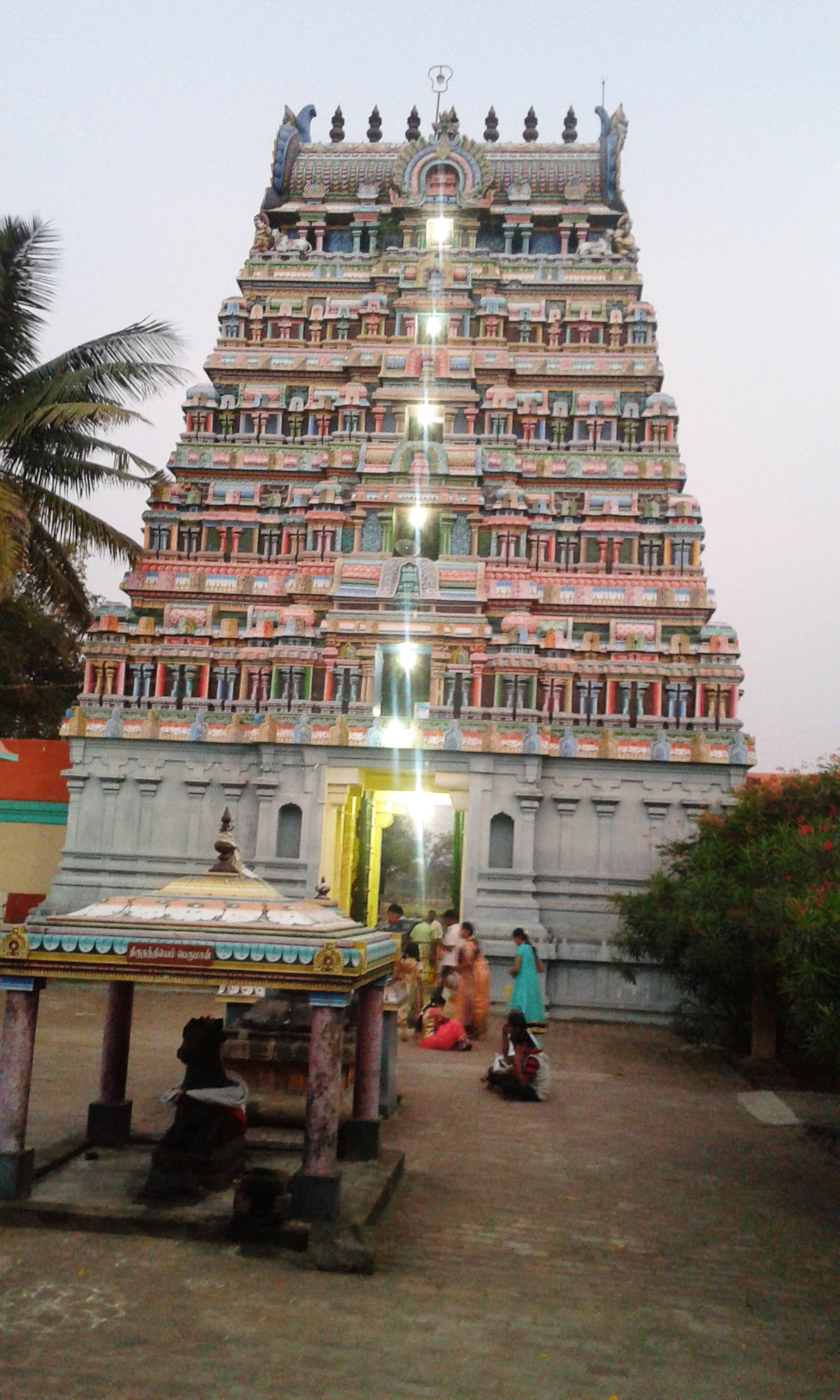 Innambur Ezhutharinathar Temple